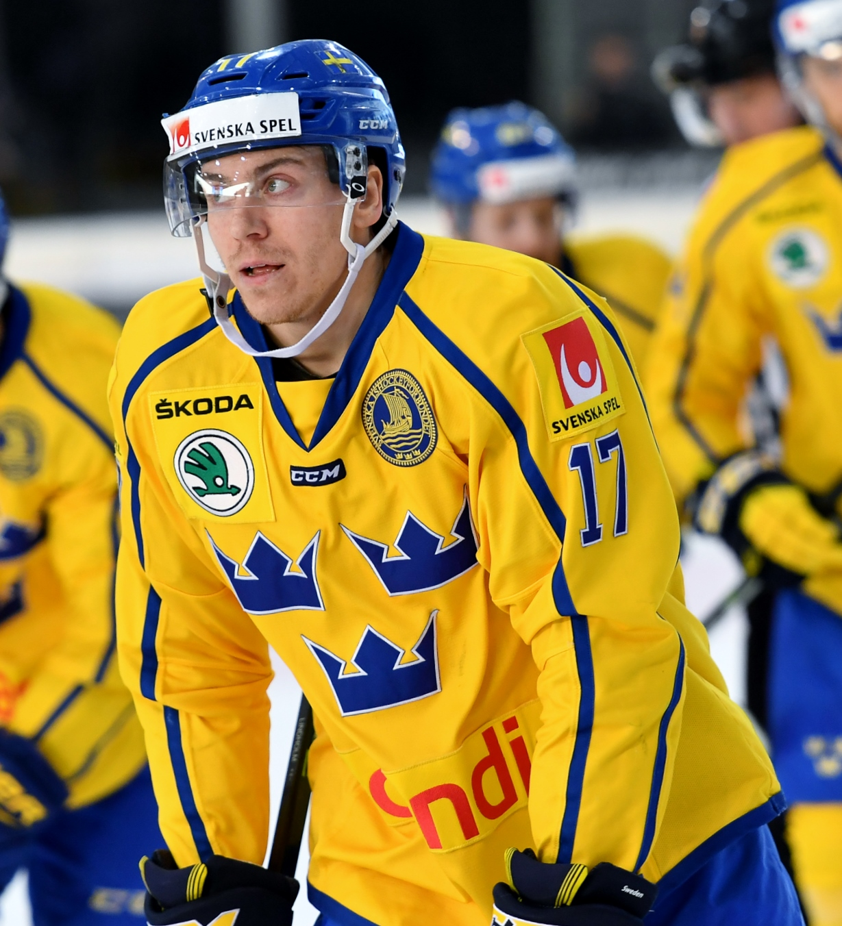 6/4/2017, Vienna, Austria, Sport, Ice Hockey, Friendly match Austria vs Sweden.